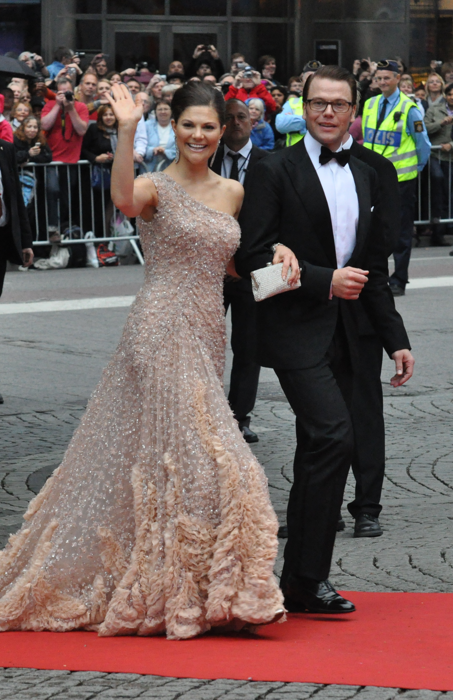 Wedding of Victoria, Crown Princess of Sweden, and Daniel Westling; Arrival to the Riksdag's Gala Performance at Konserthuset: HRH Victoria and Daniel